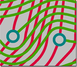 Arched wires in TopoR autorouter